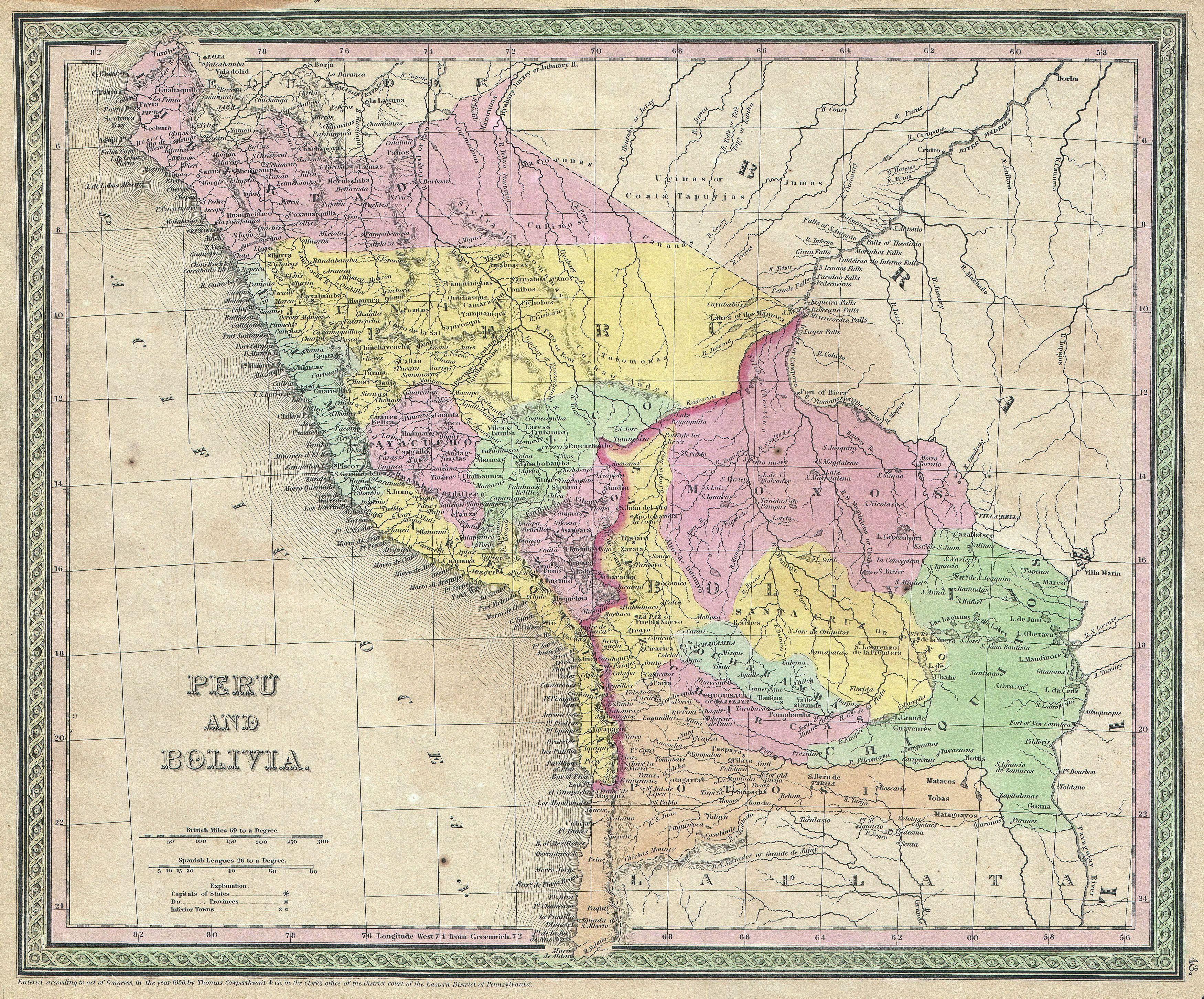 An attractive example of S. A. Mitchell Senior’s 1850 Map of Peru and Bolivia. Covers from Equator south to La Plata. When this map was made Bolivia had access to the sea through the province of Potosi – this territory is not controlled by Chili. Prepared by S. A. Mitchell for publication as plate no. 43 in T. Cowperthwait’s 1850 edition of Mitchell’s New Universal Atlas .